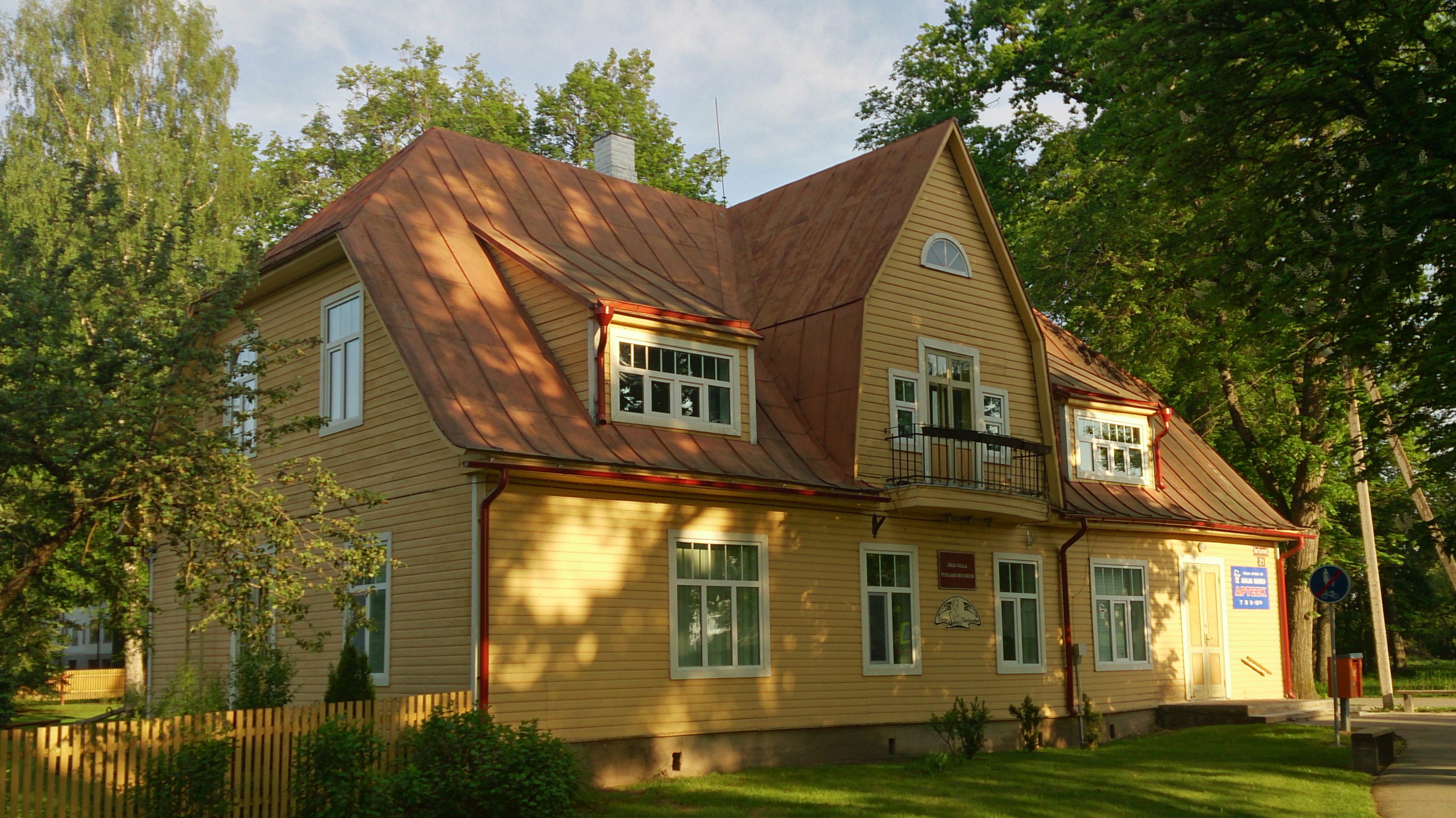 F. Tuglase muuseum ja Ahja raamatukogu